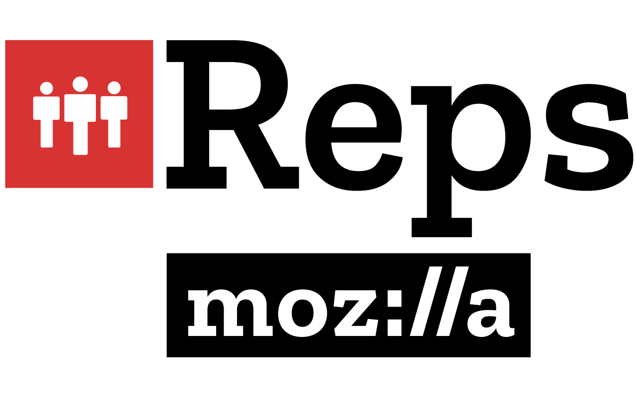 Logo for the Mozilla Reps.